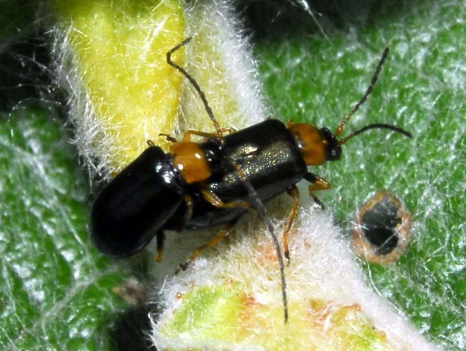 Luperus flavipes. Mating pair. Aosta, Italy